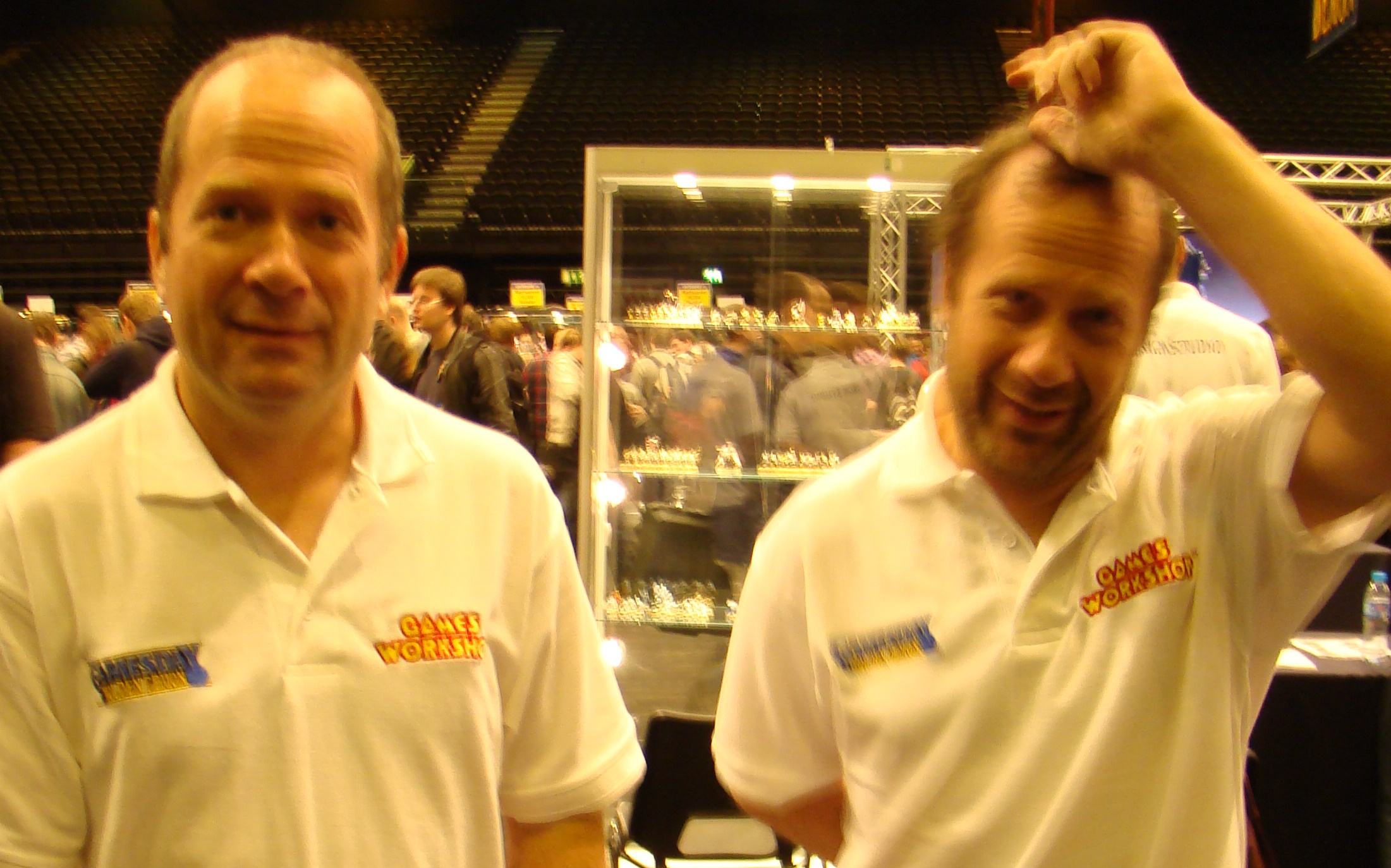 A picture of Alan and Michael taken at UK Gamesday 2011